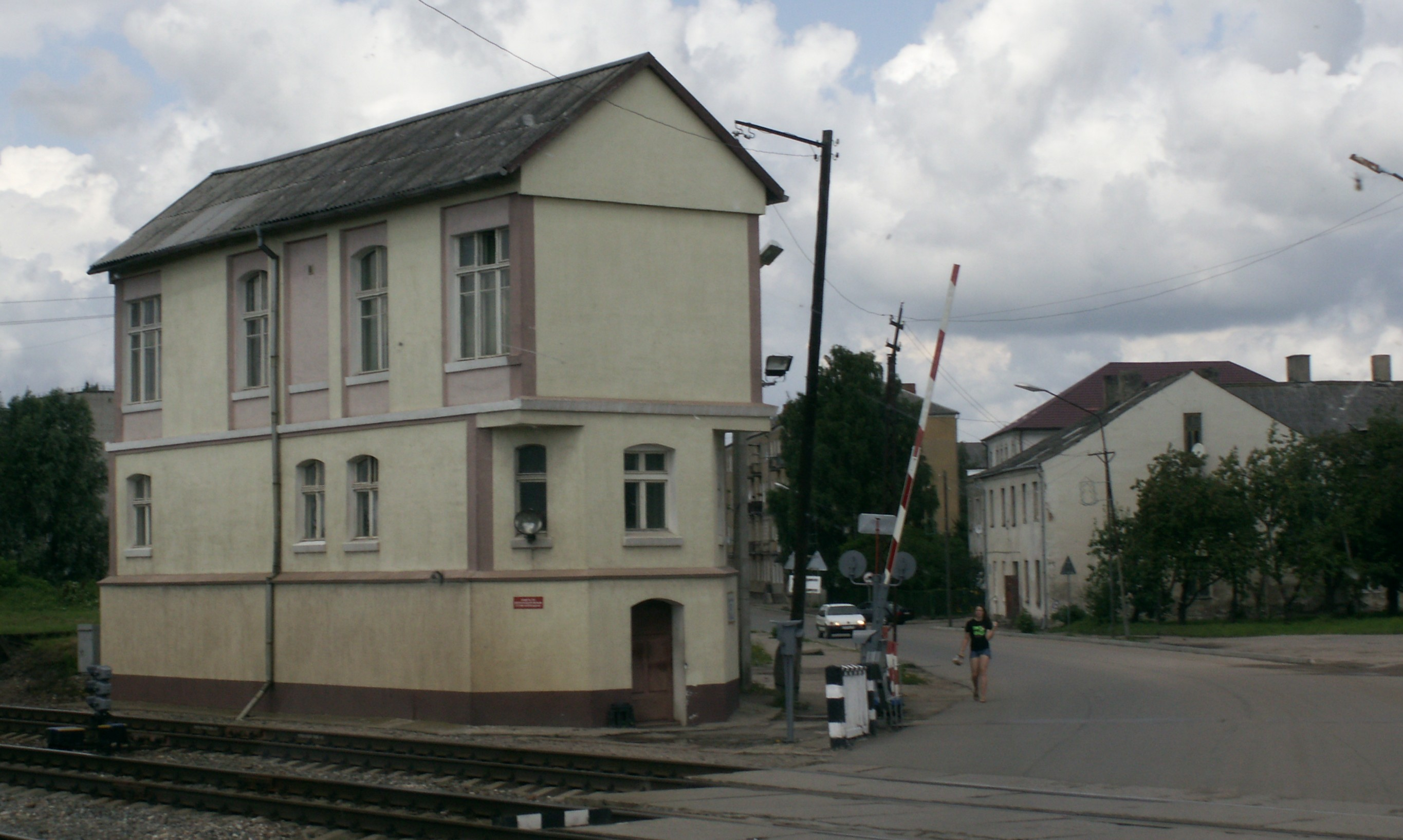 Gusev